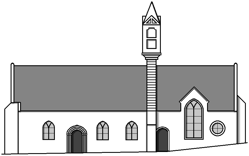 Restitution en élévation de la chapelle de Languidou, aujourd'hui en ruine.